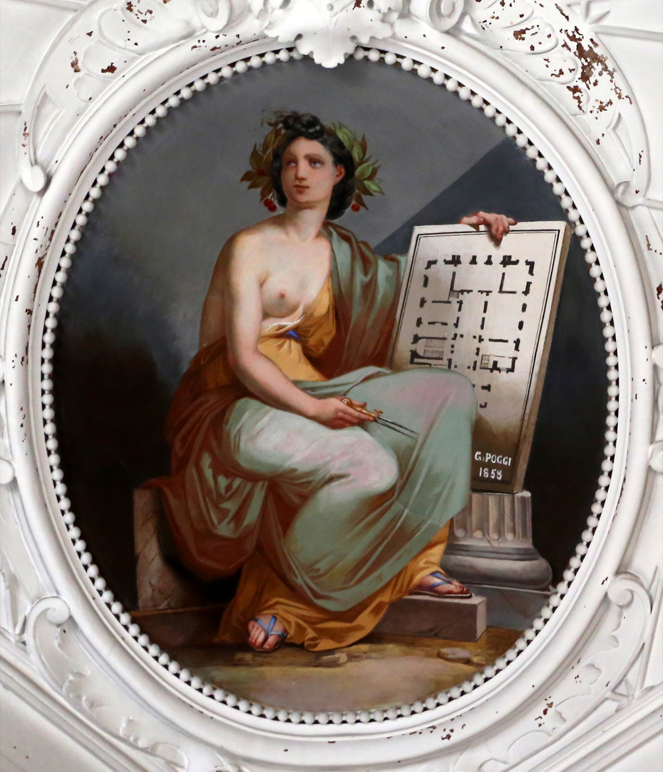 Villa Favard - Interior